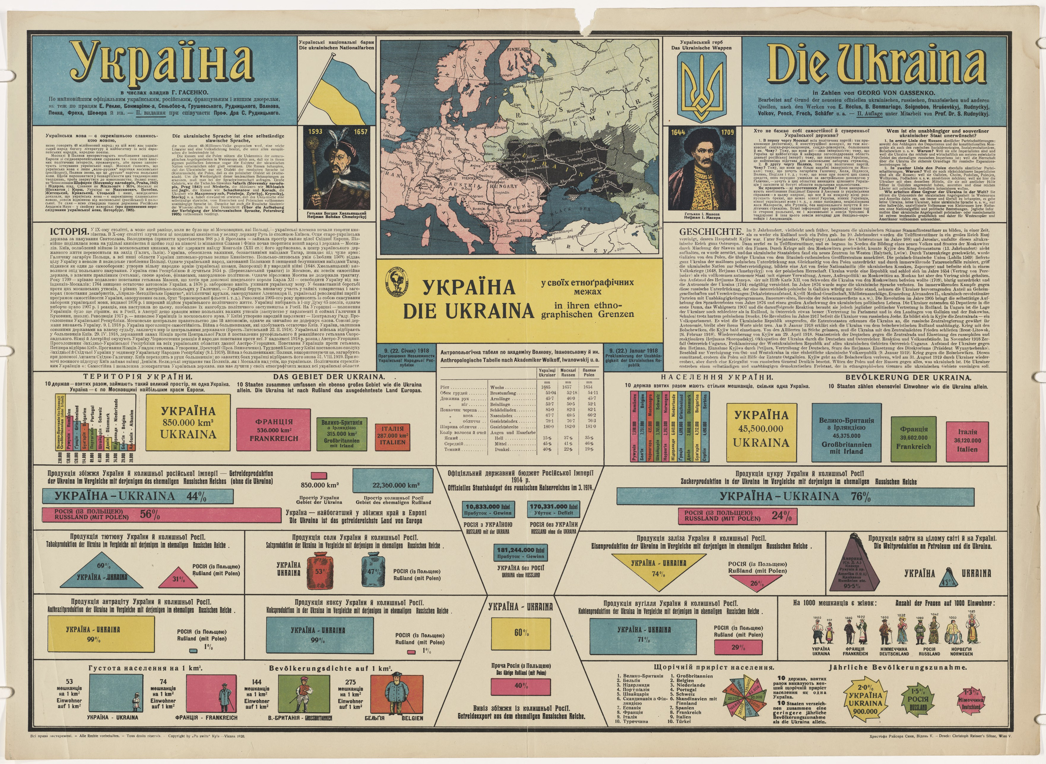 Poster "Ukraine" ("Україна") with infographic and the map "Ukraine within its ethnographic boundaries" ("Україна у своїх етноґрафічних межах") by Yuri Hasenko and Stepan Rudnytsky published in Vienna in 1920. It is written both in Ukrainian and in German, the map is in English.